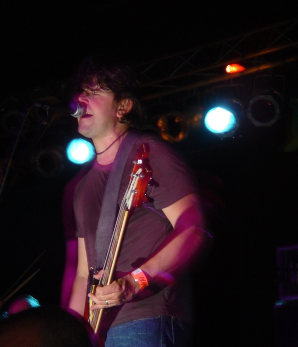 This was my only semi-decent picture from the show. People were totally rawkin' out. I love him!